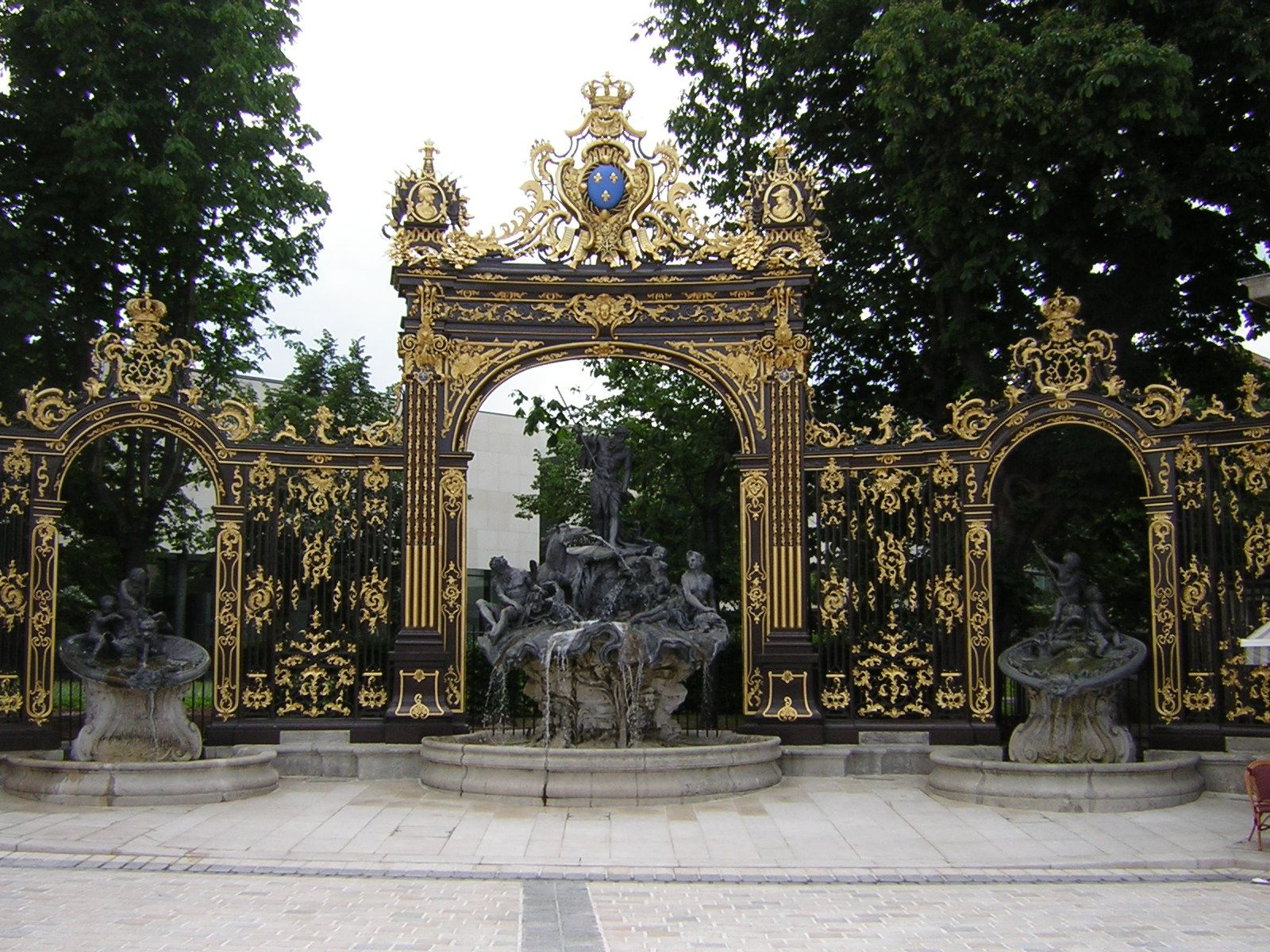 Fountain of Neptune. Grids by Jean Lamour. Fountain by Barthélemy Guibal. Place Stanislas, Nancy, France.